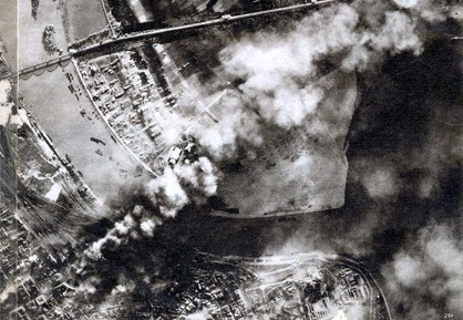 German Lufwaffe propaganda airimage of the Belgrade Bombardment 4/6/1941, appeared in the german propaganda magazine, Der Adler, No. 9, Apr. 29. 1941